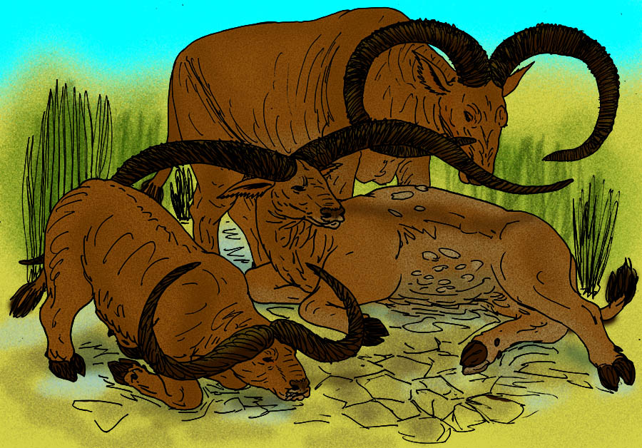 Reconstructions of 3 species of the Pleistocene bovid genus Pelorovis In the back is P. oldowayensis. Lying in front of it is P. turkanensis, with a horn-span of around 3 to 4 meters from tip to tip. Kneeling is the water buffalo-like P. antiquus.